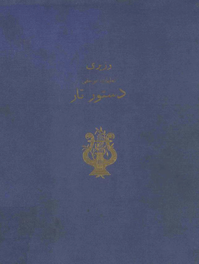 Derived from File:Dastoor Tar Vaziri.pdf